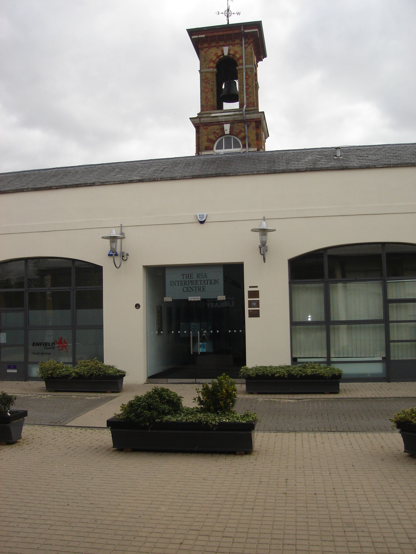 Picture of the RSAF Interpretation Centre at the former Royal Small Arms Factory at Enfield Island Village